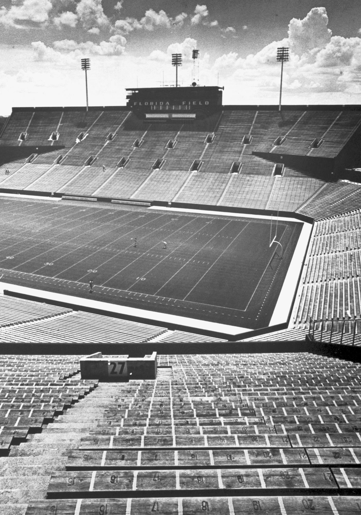 A historic photo of Ben Hill Griffin Stadium